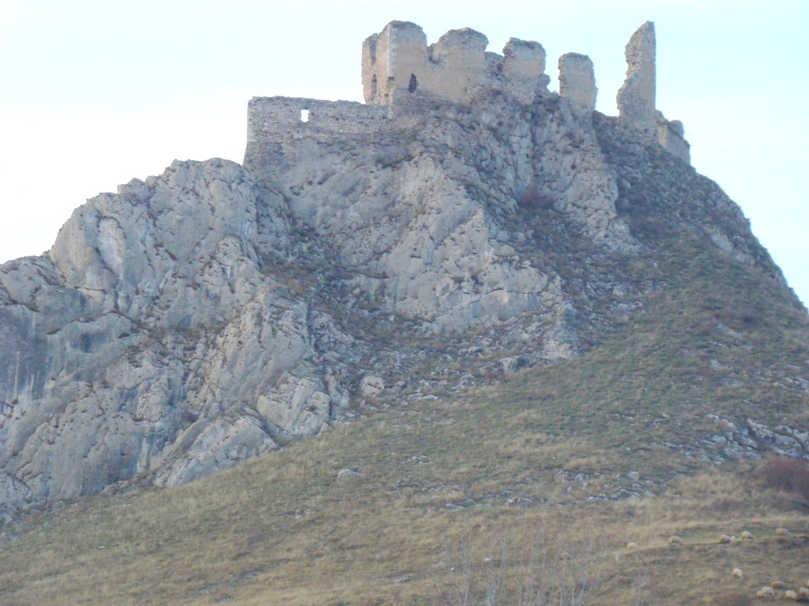 Trascău Fortress, Alba county, Romania